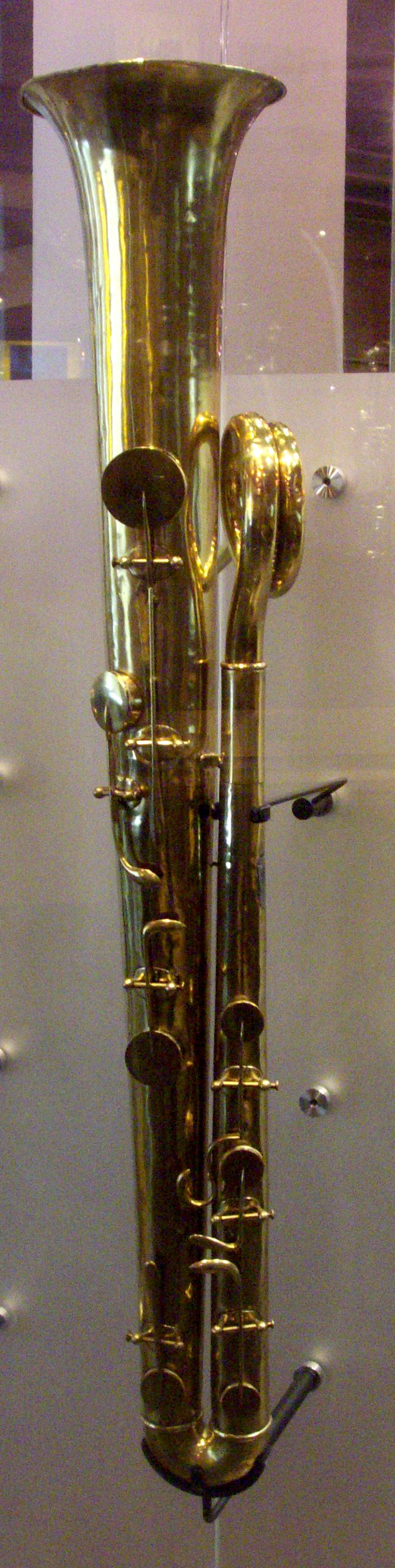 Ophicleide - brass musical instrument